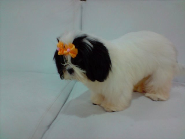 Shih Tzu